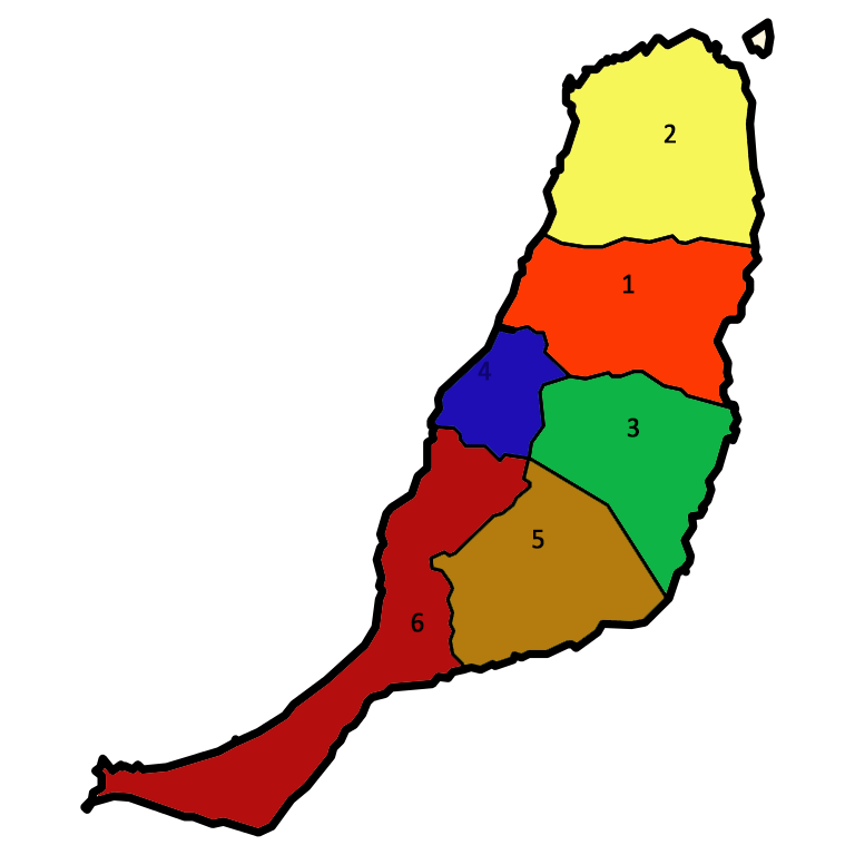 Municipalities of Fuerteventura, Canary Islands.